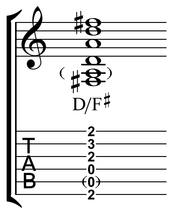 D-over-F-sharp slash chord.